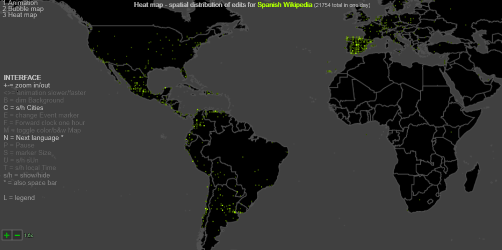 Global distribution of Wikipedia edits on May10, 2011. Heat map, Spanish only, worldwide, black background, shortcuts help.